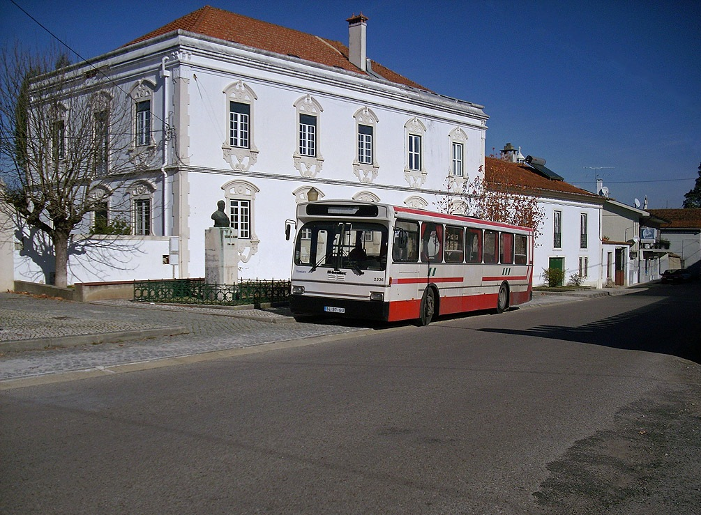 Mogofores, in Anadia municipality, Portugal